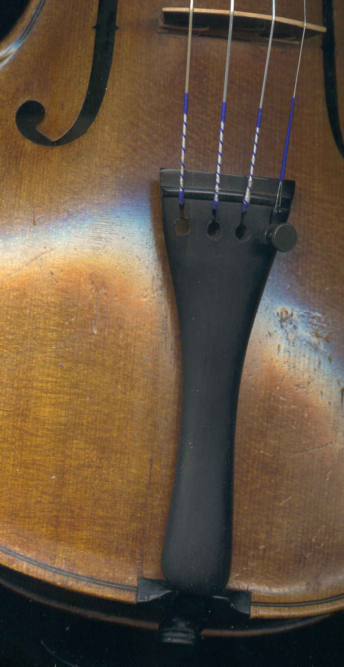 Violin tailpiece with single Hill-style fine tuner (Look closely to see the marks of previous fine tuners around the holes for the other strings.)